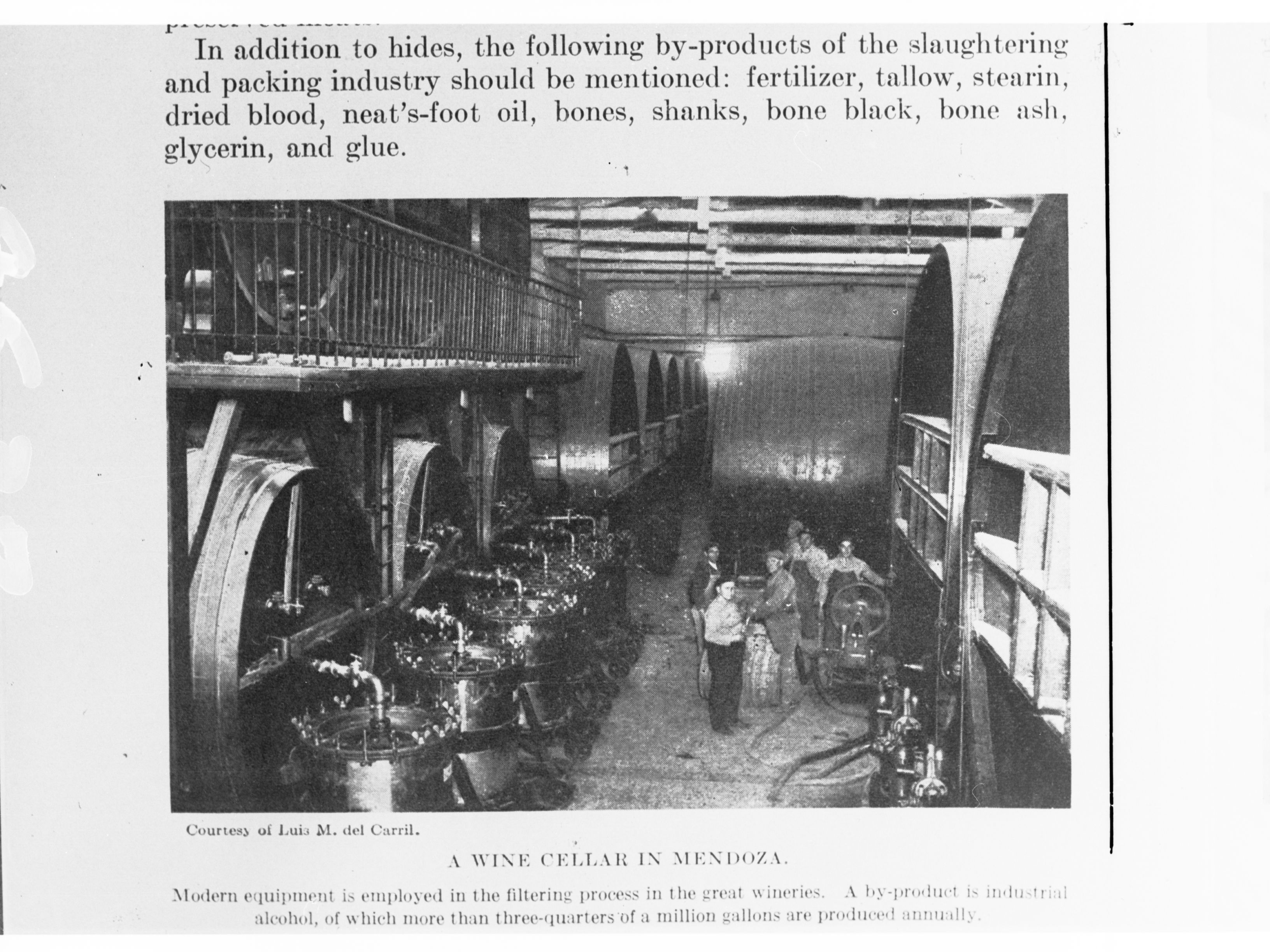 See also GN04625 - 4651, 4559 - 61, 4769 - 76, 4779 - 90, 4797 - 4893A (G Brooks) - Mendoza is in Peru